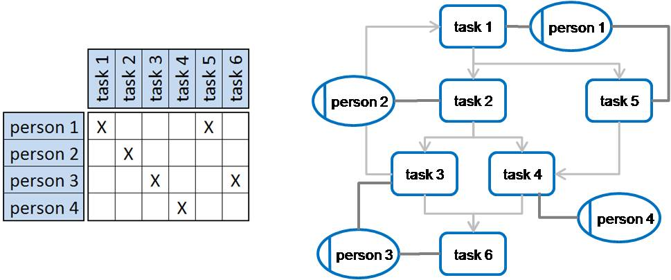 Domain Mapping Matrix (DMM) example